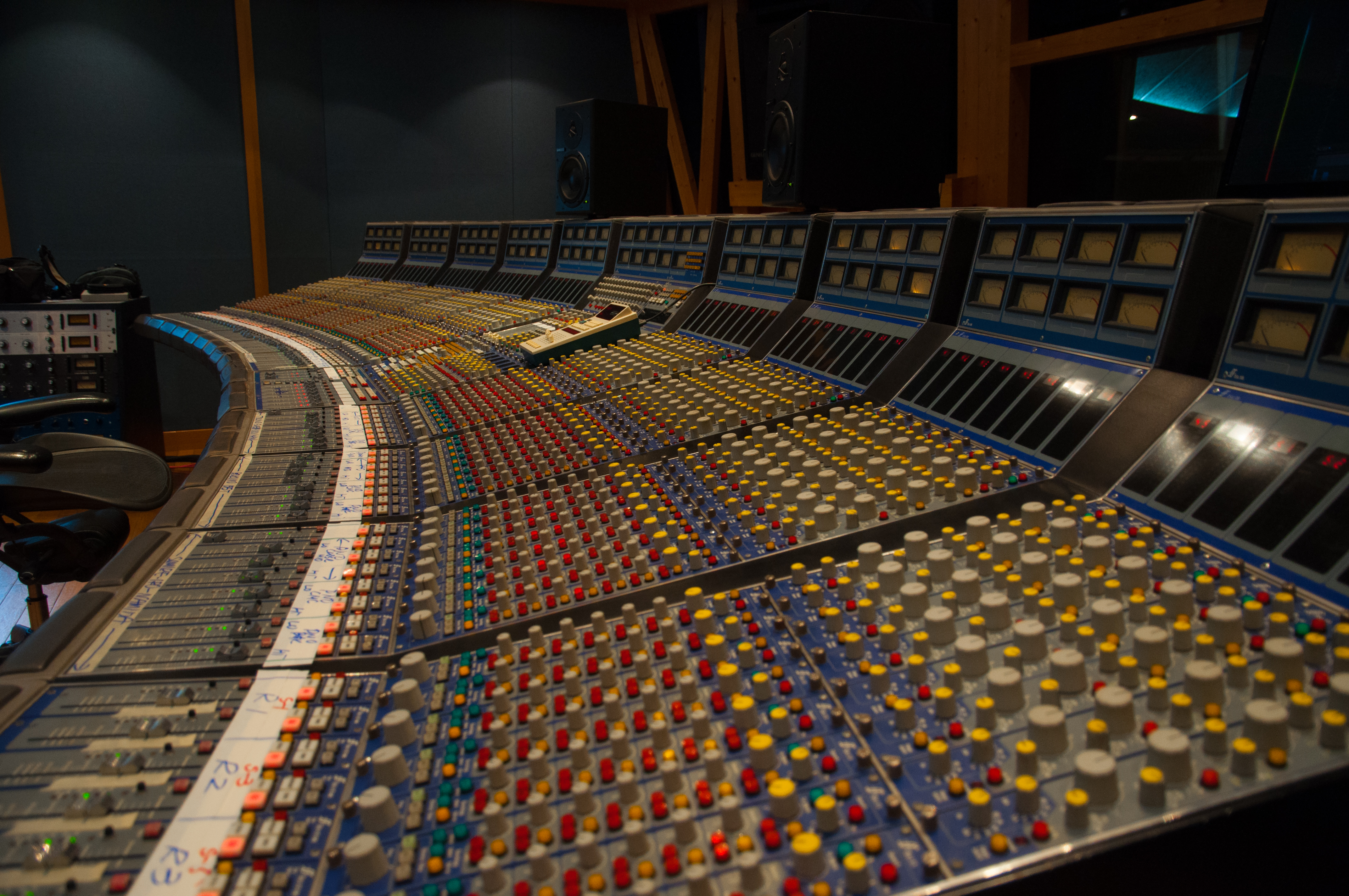 Focusrite Studio Console @ Sound City Setagaya DSC 1931